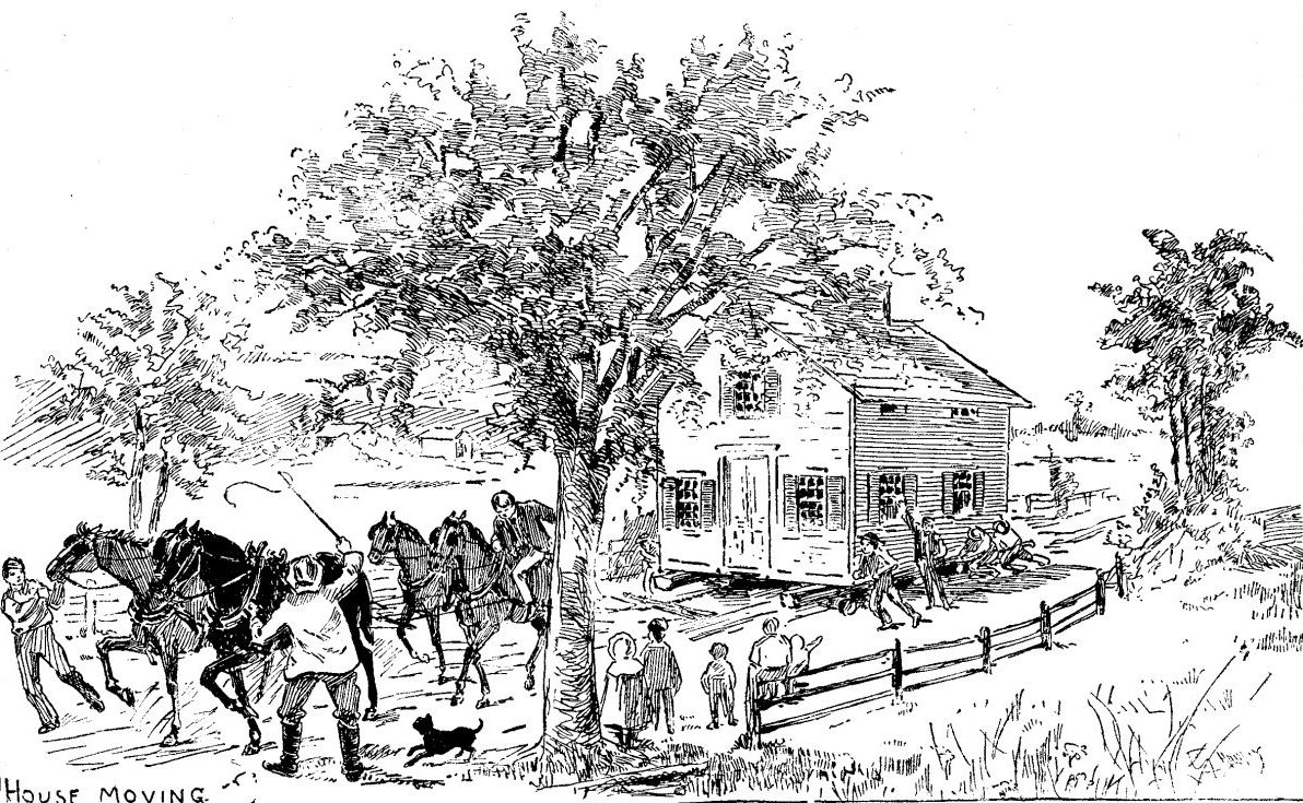 Picture of moving from Old Katonah to New from Project Gutenberg